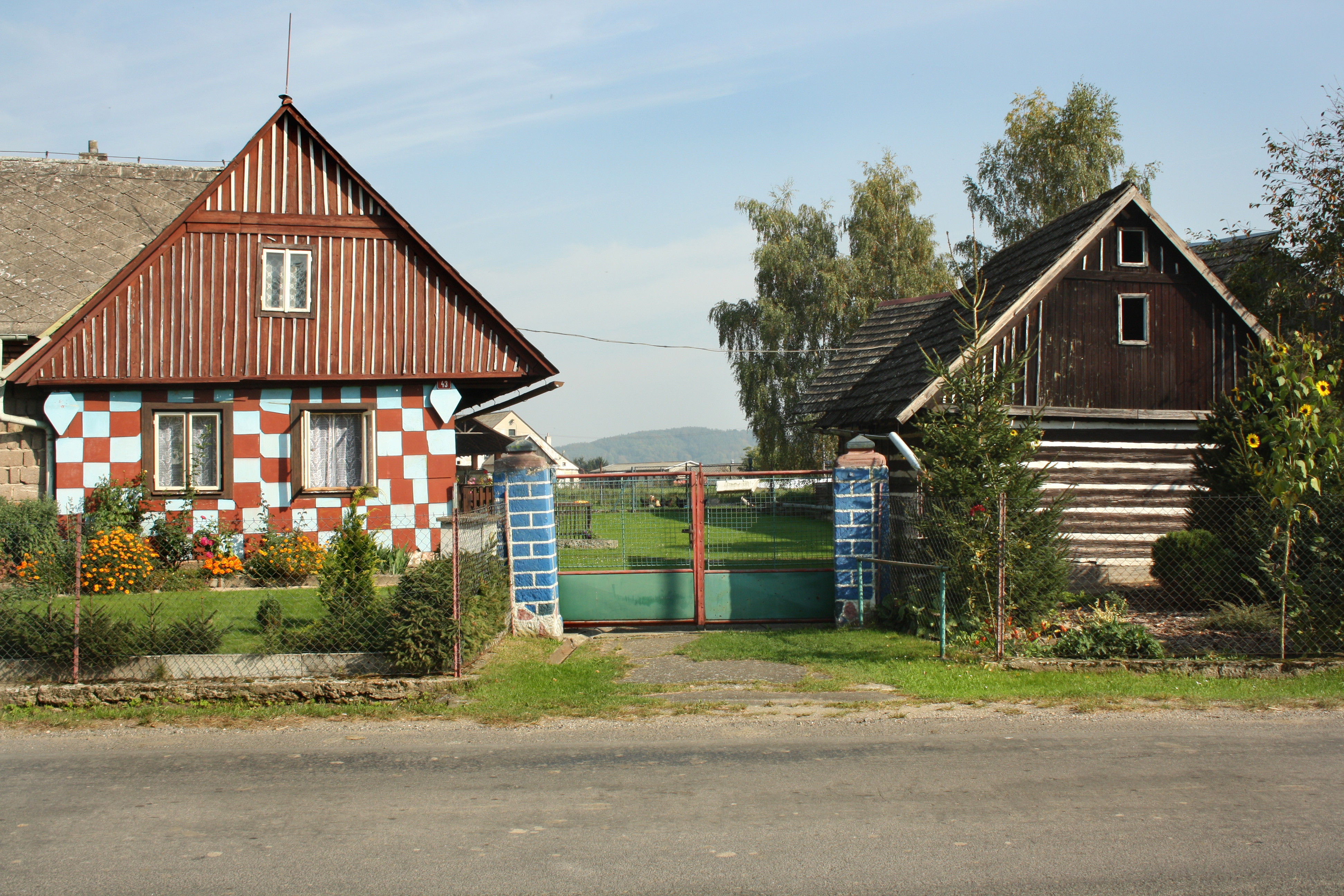 Vernacular architecture in Žďár, Czech Republic